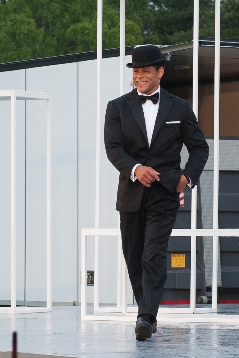 Karl Dyall performing in the play From Sammie with Love at Nytorps Gärde, Stockholm, Sweden, June 2015